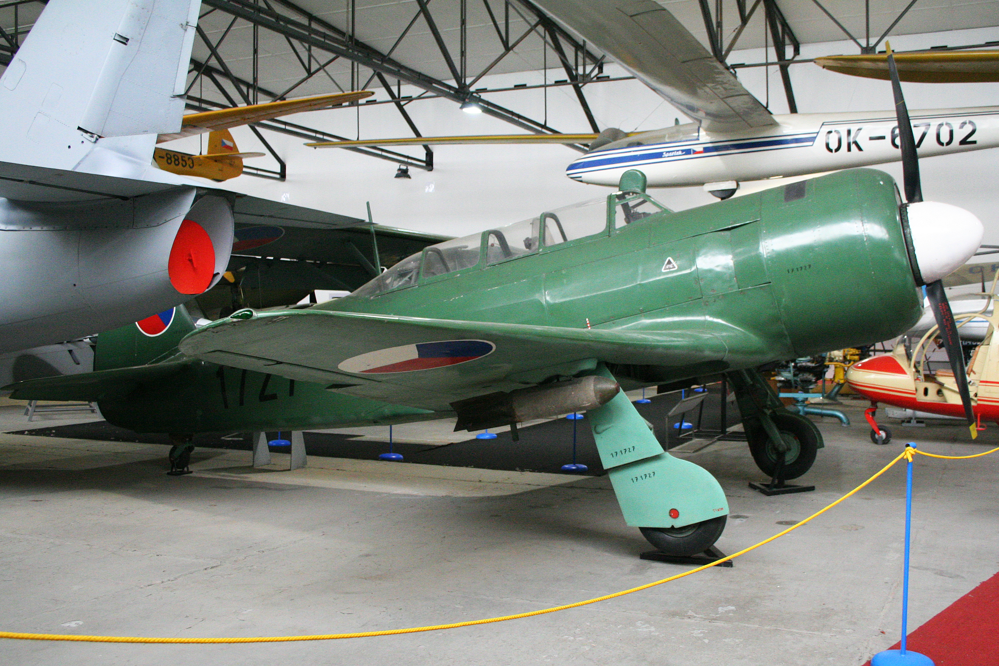 The C11 was a Czech built Yak-11. It's nice to finally see a C11 in genuine Czech markings. As warbirds they usually end up in WW2 Russian fighter schemes. This is what they're supposed to look like!! msn 171727. On display in the Post War Hangar, Kbely museum, Czech Republic. 07-10-2012